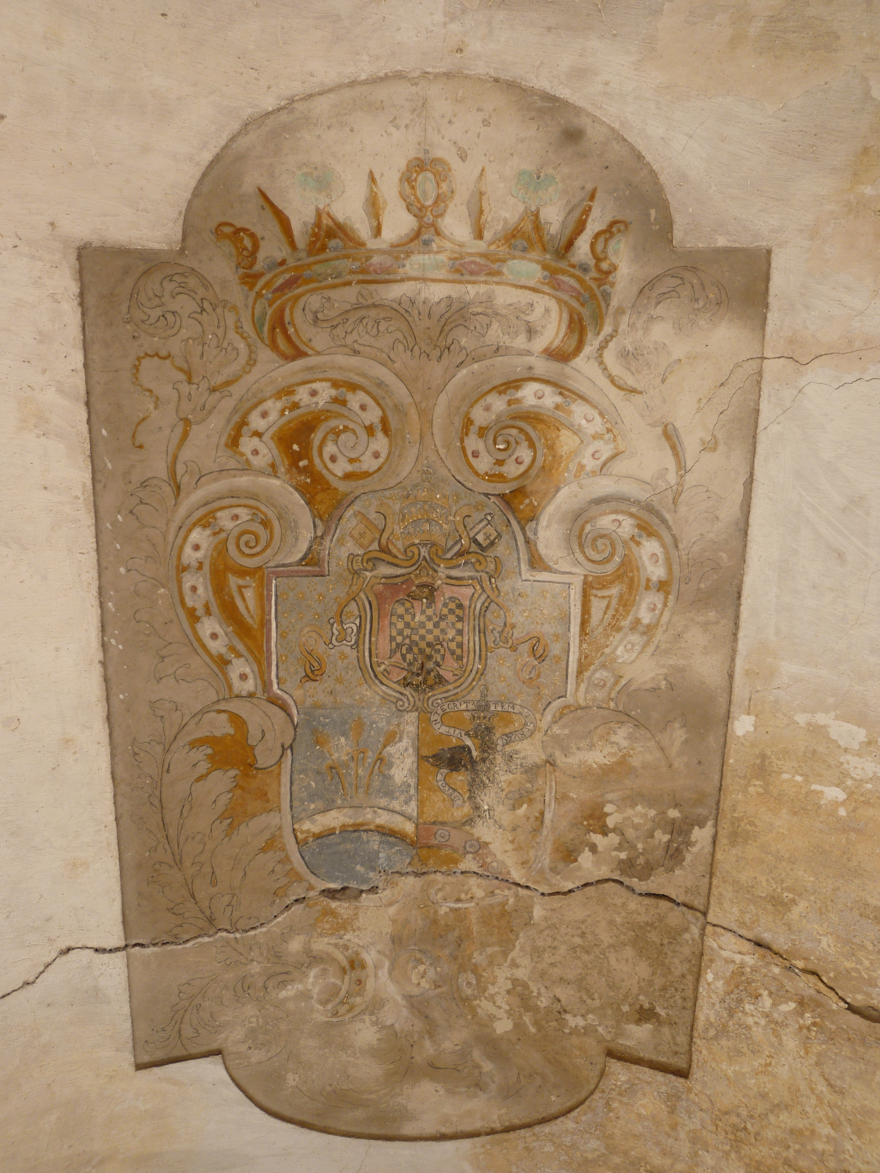 Coat of Arms in Baglioni palace, Civitella Messer Raimondo, province of Chieti, Abruzzo, Italy